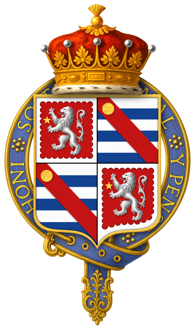 Shield of arms of Henry Grey, 3rd Earl Grey, as displayed on his Order of the Garter stall plate in St. George's Chapel.